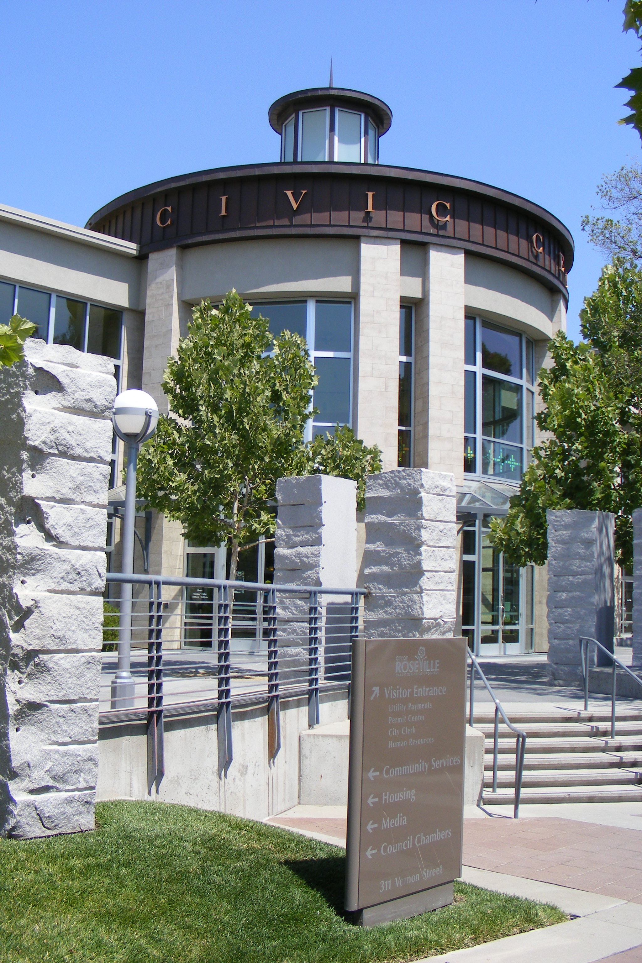 The civic center for Roseville, California.